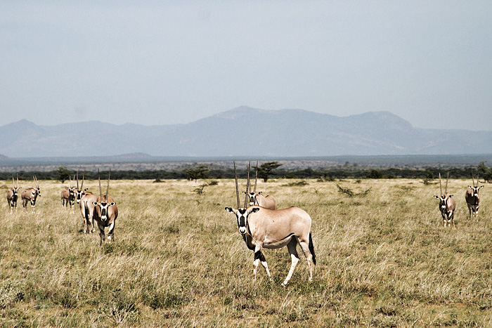 East African Oryxes (Oryx beisa)